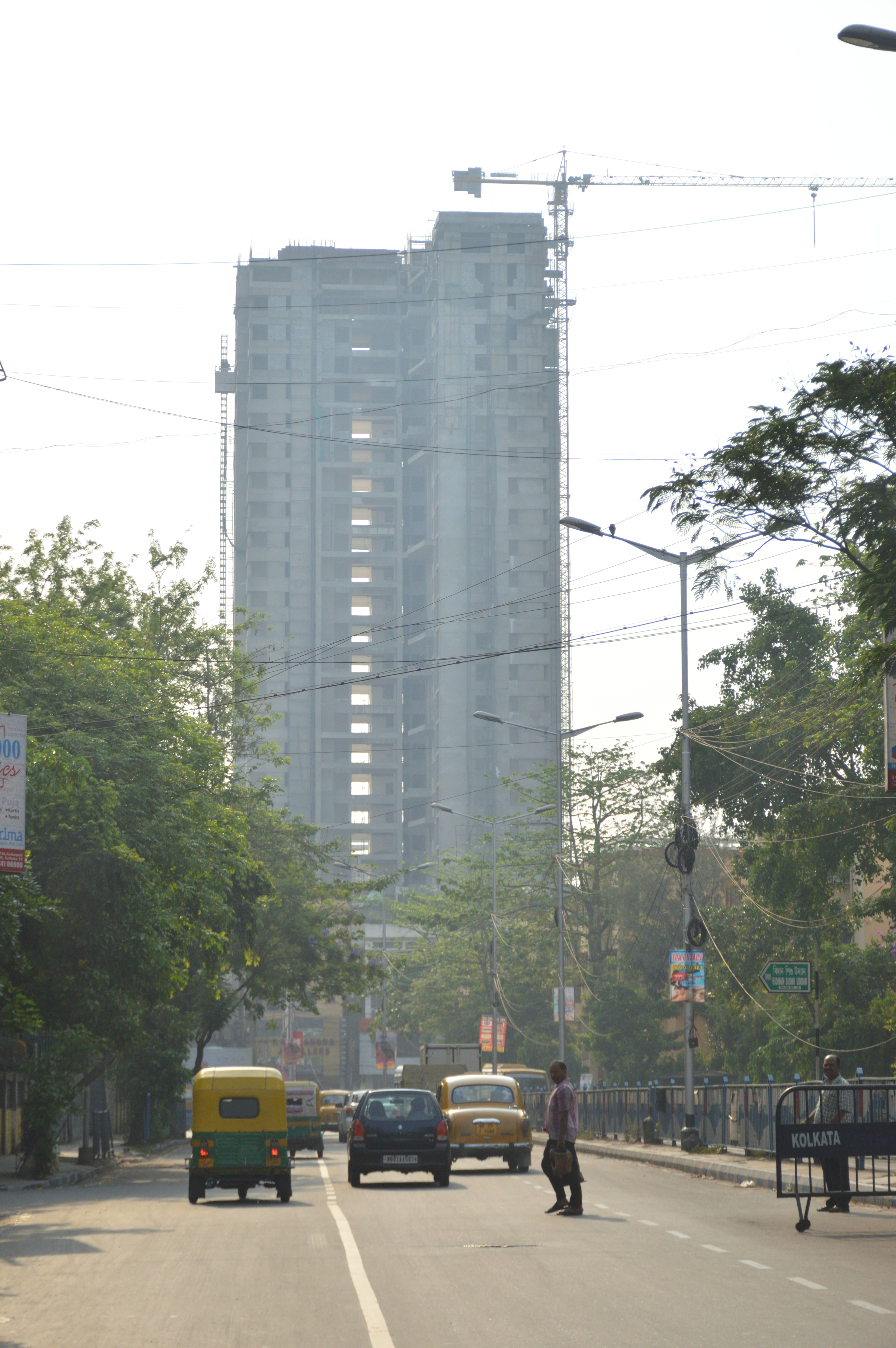 Photographed in North Kolkata, India.